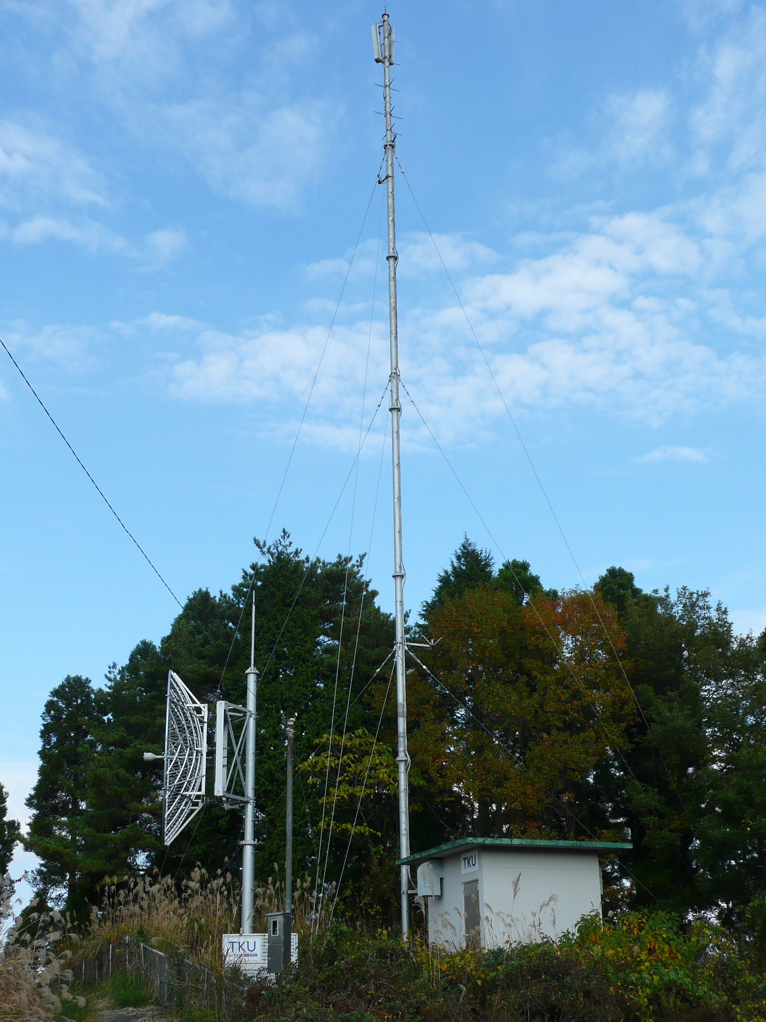 TKU TV Kumamoto (JOZH-TV) Soyo Analog TV Repeater (Yamato Town, Kumamoto, Japan)